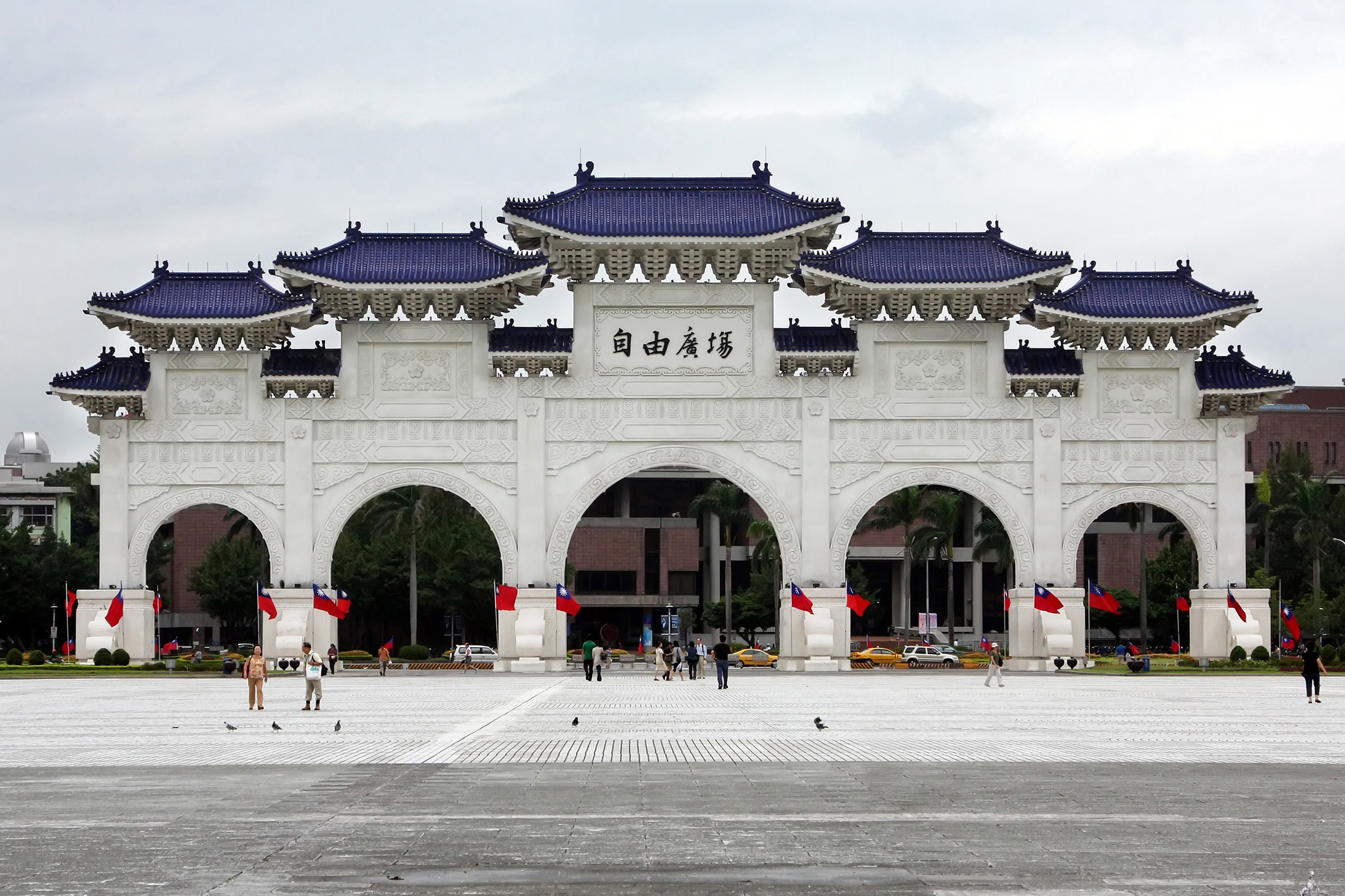 Gate to Chiang Kai-shek Memorial Hall, Taipei, Taiwan